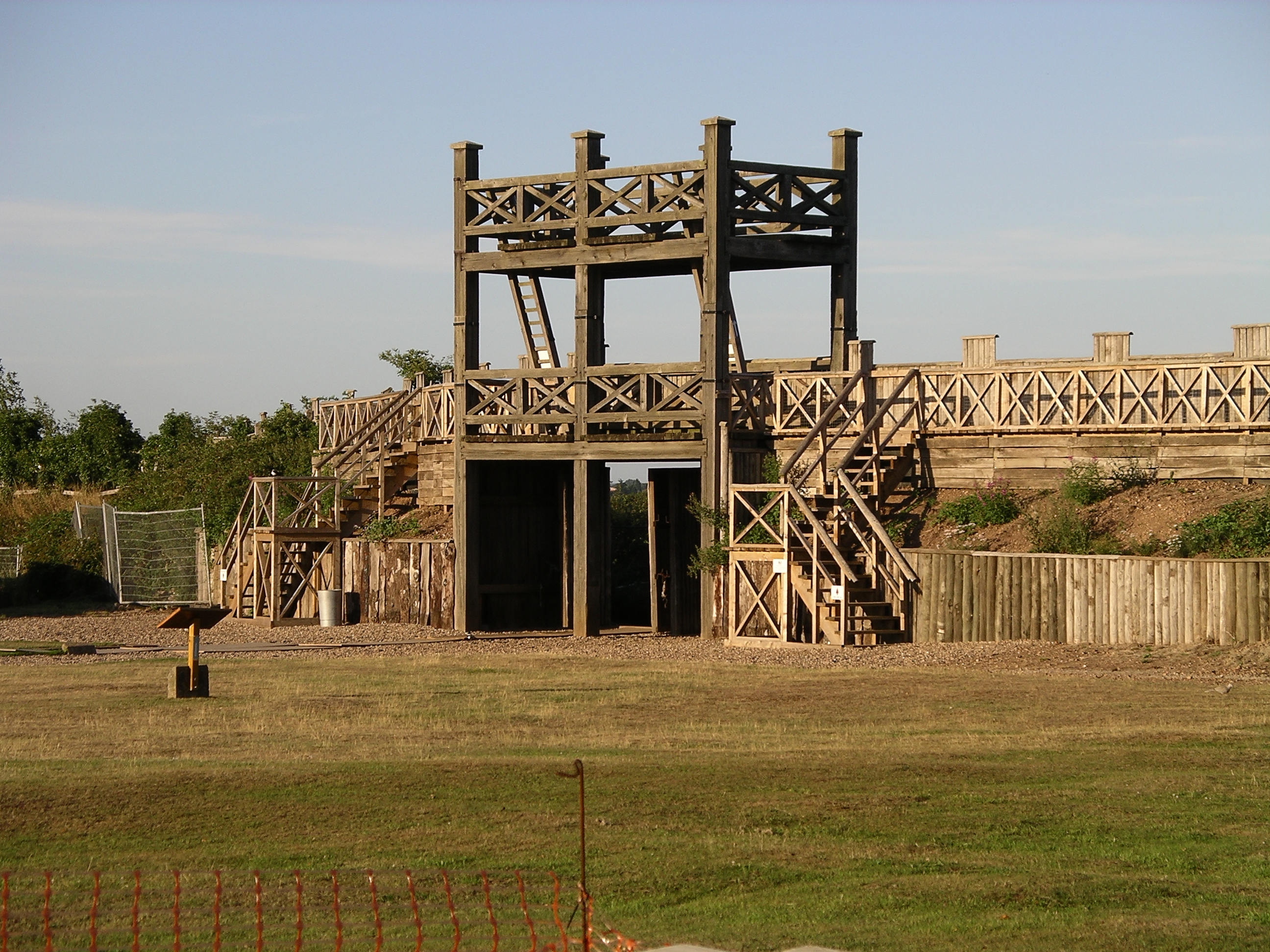 Photo taken by me of the reconstructed main gate - photo taken from the nearby road. Shows the aspect of the gate facing onto the Roman compound.